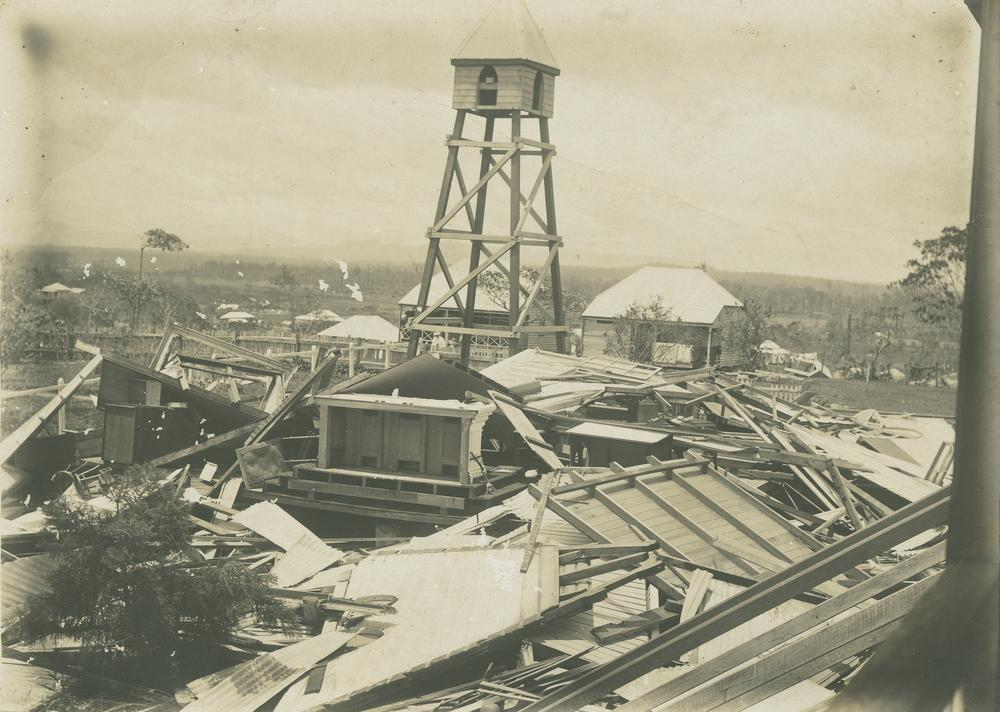 Ruins of the Roman Catholic Church in Innisfail after the 1906 cyclone Stark remainders after the cyclone are the twisted frames and the lone bell tower.